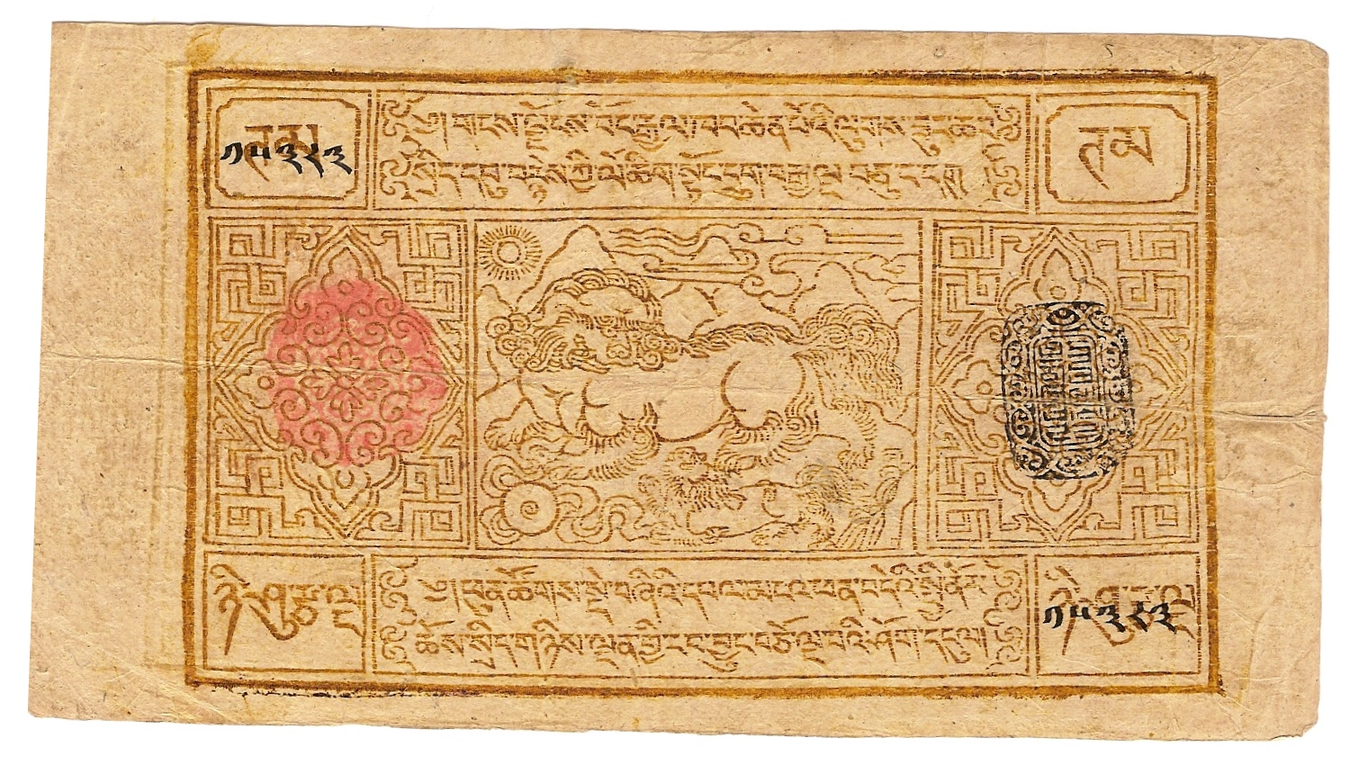 Tibet 25 Tam banknote, dated T.E. 1659 (=AD 1913), serial number 15383